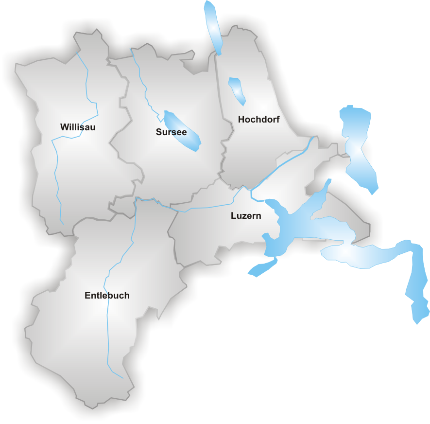 Map of districts in the Canton of Lucerne.